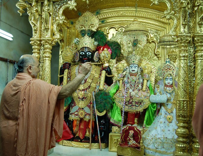 Aarti of Hari Krishna Maharaj and Laxmi Narayan Dev at Shree Swaminarayan Temple, Vadtal (Gujarat, India)